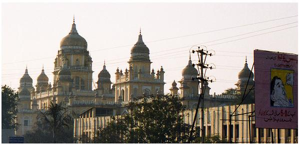 An Image of Osmania General Hospital, in Hyderabad India.